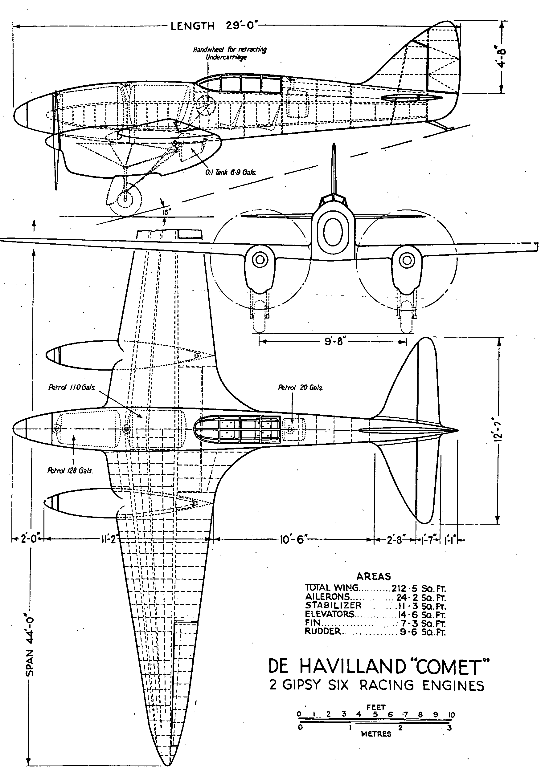 De Havilland DH.88 Comet 3-view drawing from NACA-AC-197